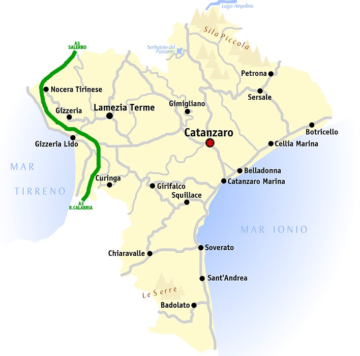 Map of the province of Catanzaro, Italy